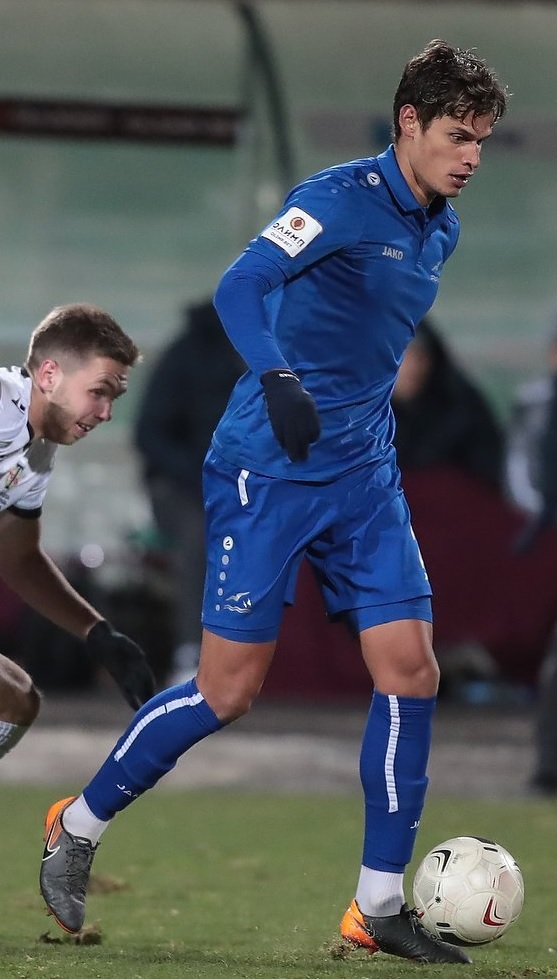 Nailson with FC Baltika Kaliningrad in a Russian Cup game against FC Torpedo Moscow.